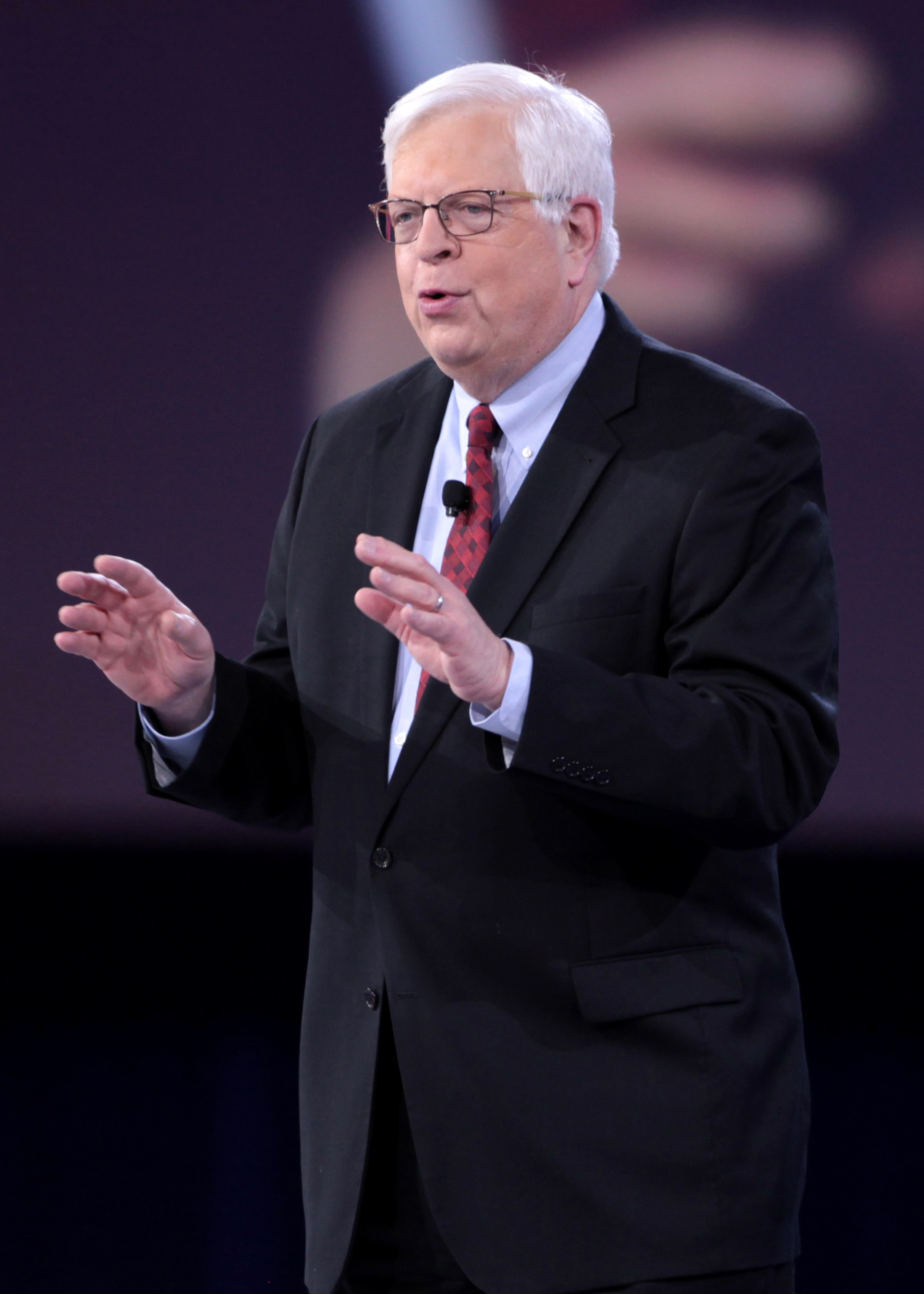 Dennis Prager speaking at CPAC 2016 in National Harbor, Maryland.